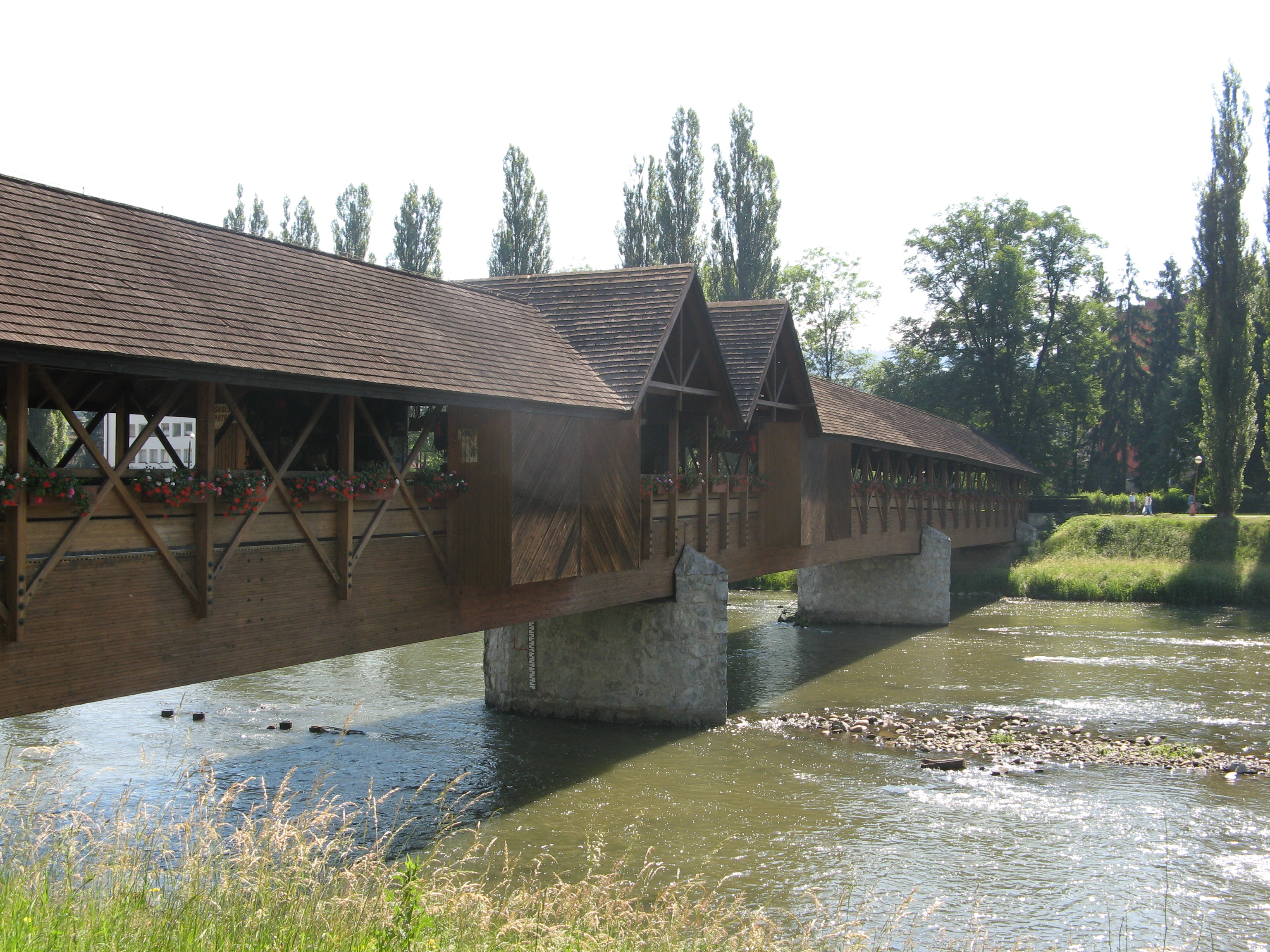 Wooden Bridge in Dolny Kubin